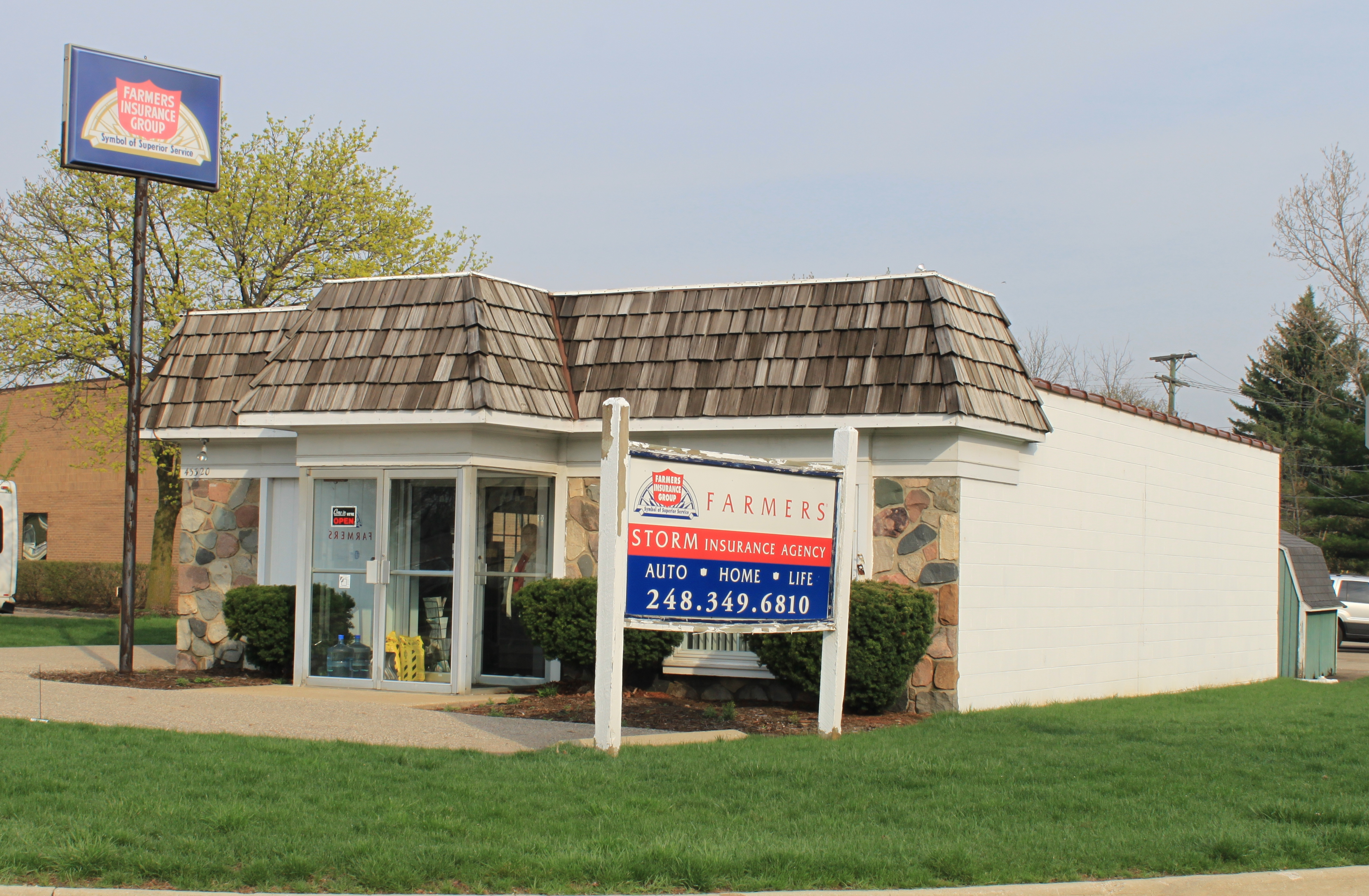 Storm Farmers Insurance Group agency, 43320 Seven Mile Road, Northville, Michigan.